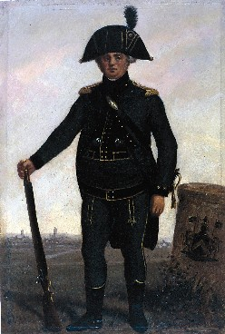 Chevalier Dierickx de ten Hamme, belgian volunteer during the Belgian Revolution